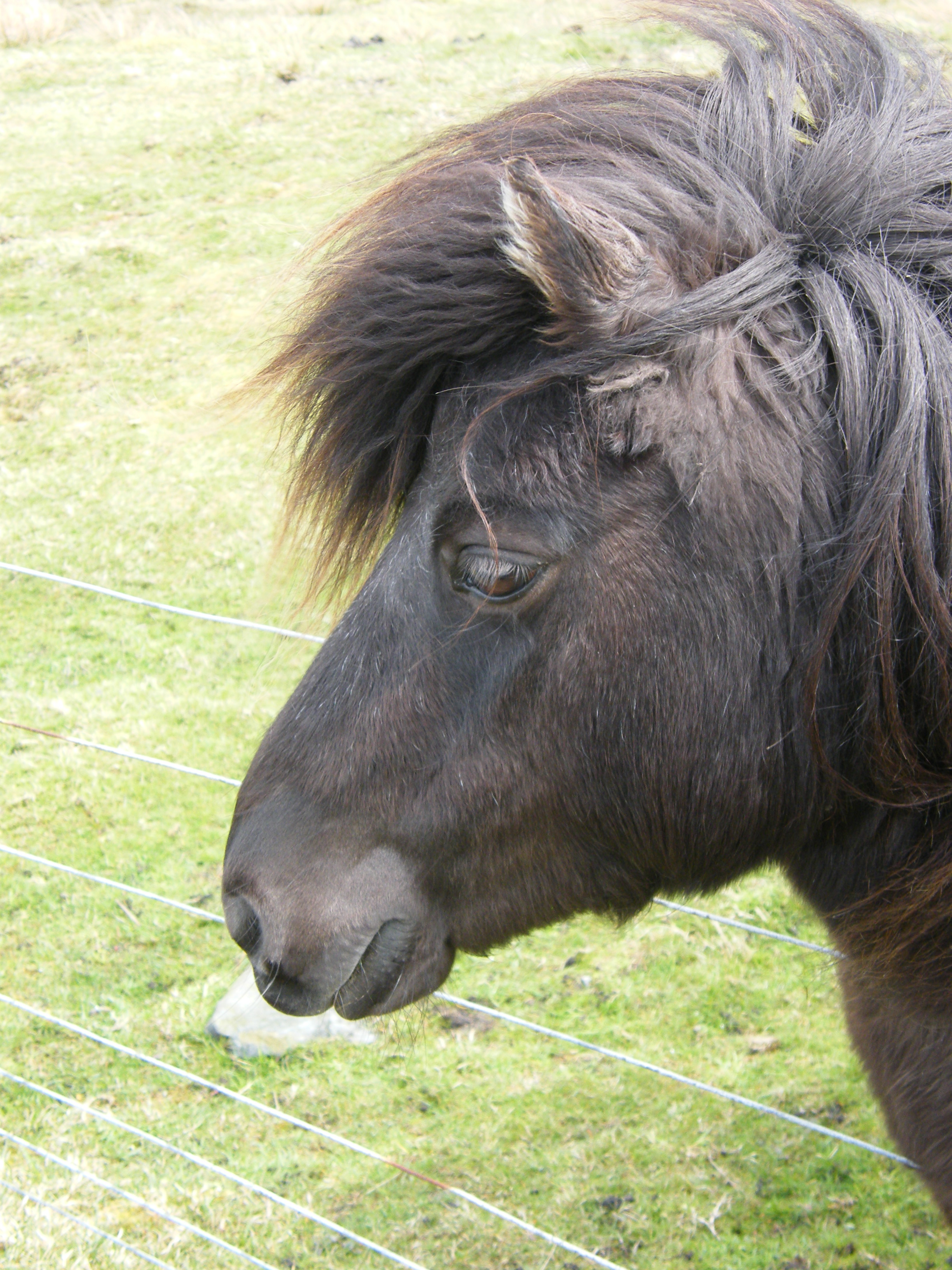 Shetland pony